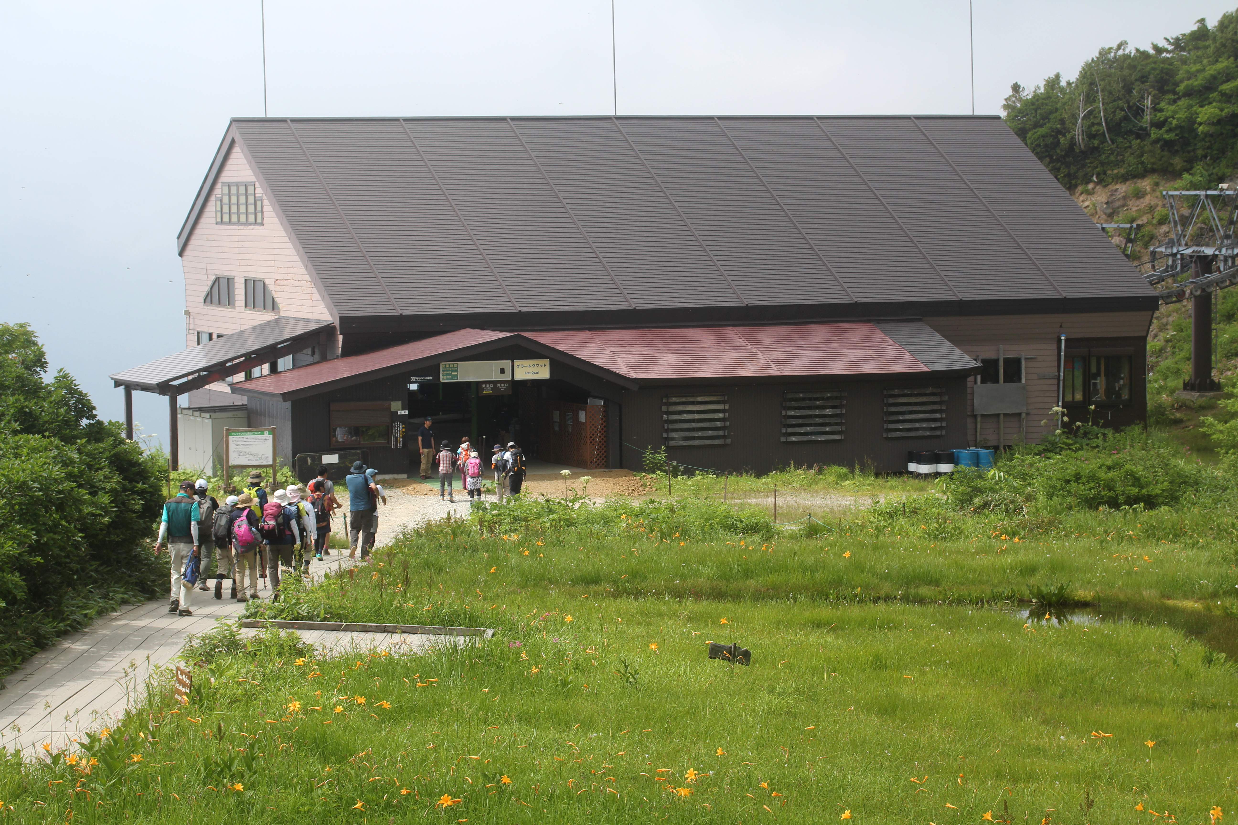 Grad Quad lift on Happo Alpen line and Hemerocallis esculenta around Kama Pond in Hakuba Happoone Winter Resort, Hakuba, Nagano Prefecture, Japan.